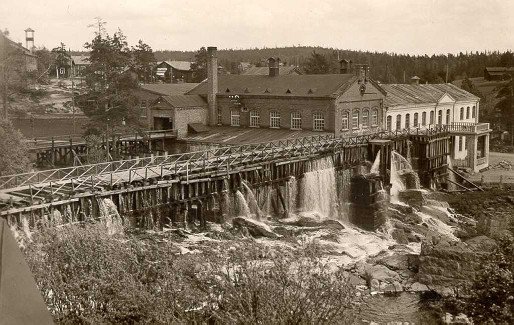 Patalankoski mechanical pulp mill in Jämsänkoski, Finland in early 1930s